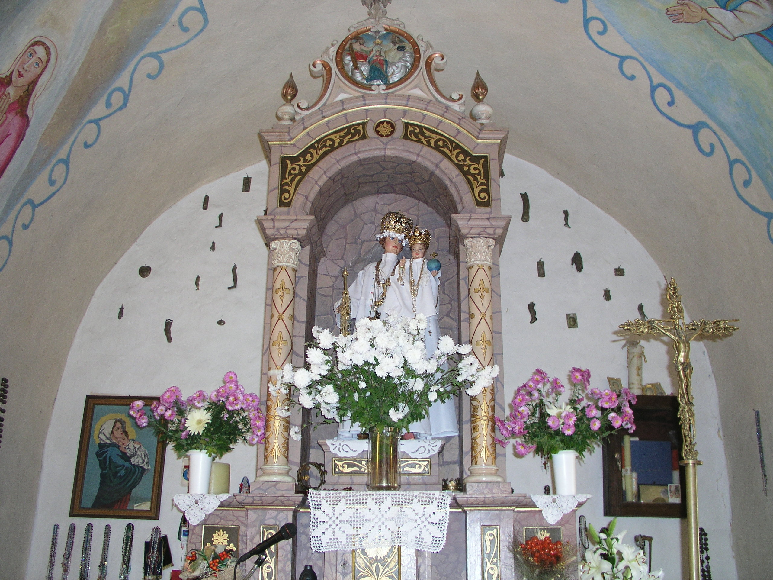 Altair in church of Mother Mary of Krasno